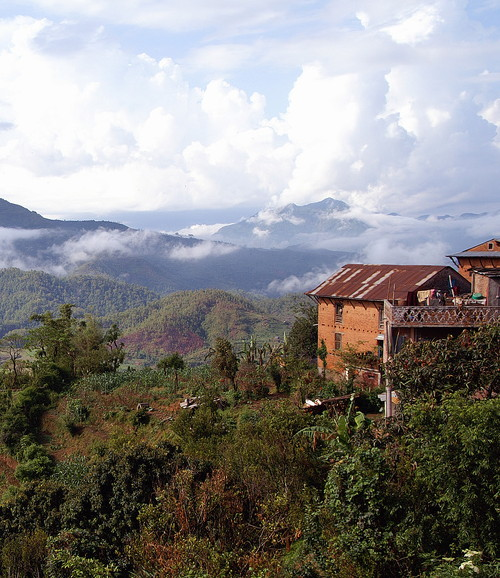 Bandipur, Nepal, Taken at my lodge near to Bandipur National Park